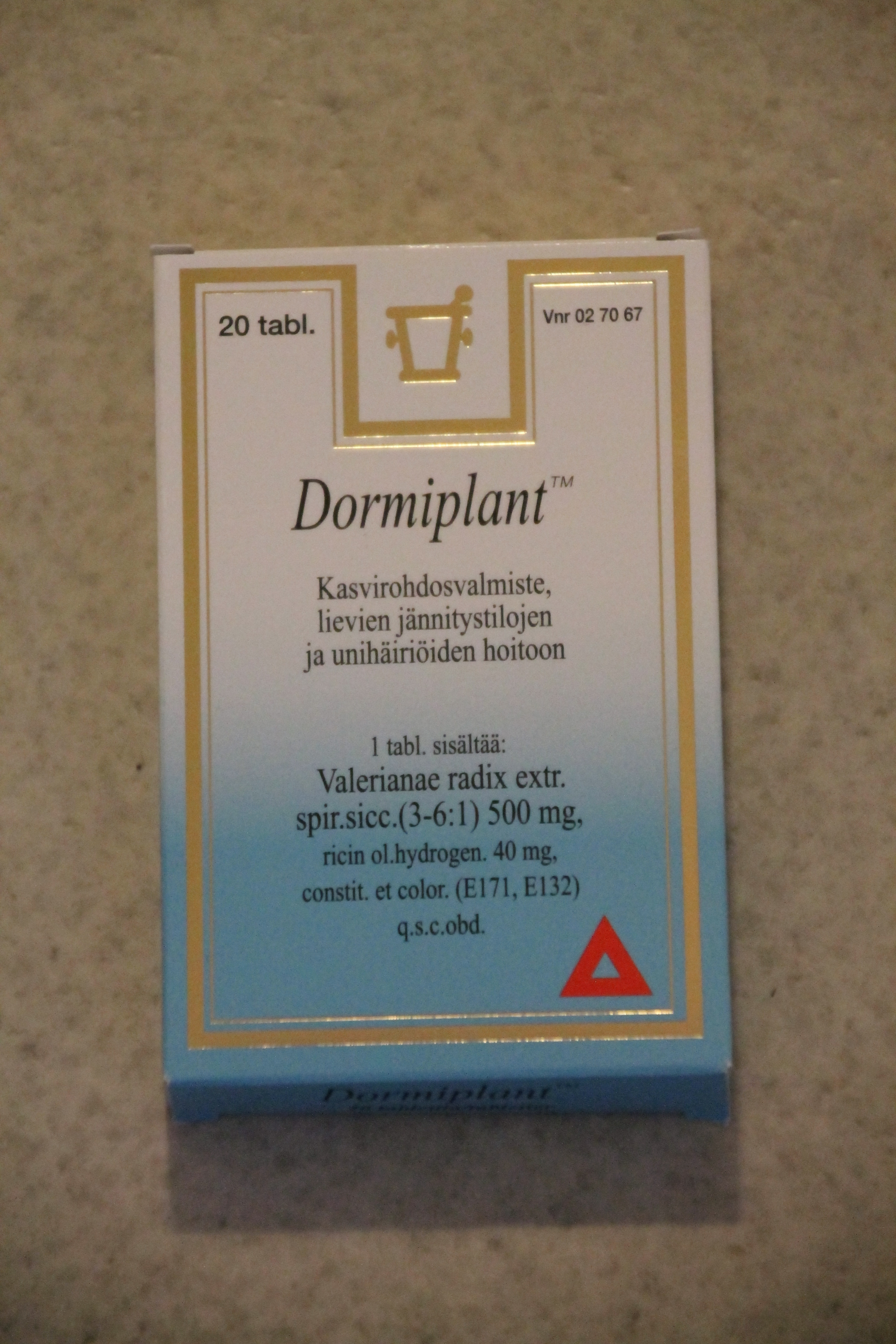 Dormpilant -valeriana capsules. It is used for mild anxiety and insomnia. Dormiplant is sold in Finland over counter, it can be achieved without a prescription.